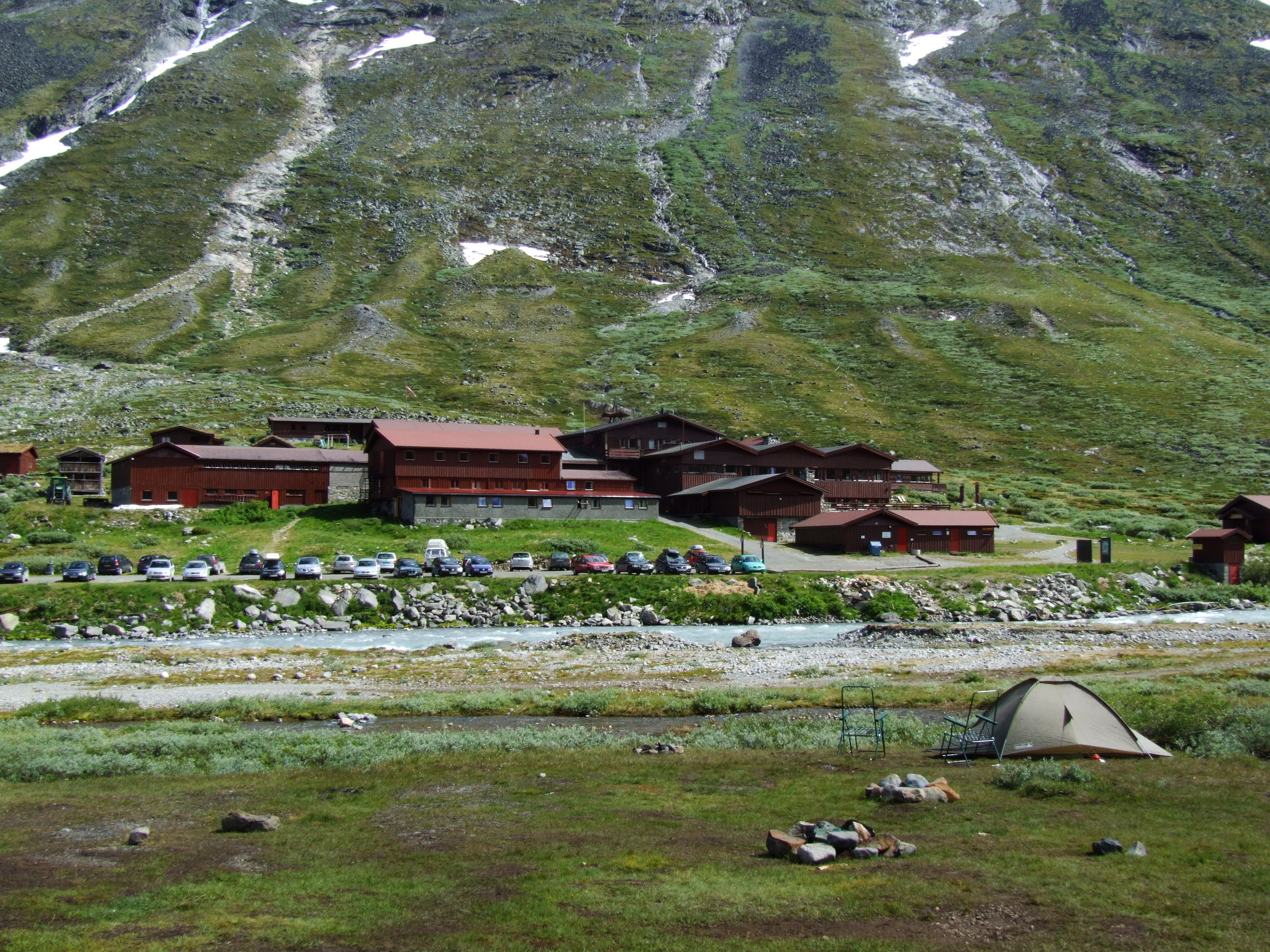 Mountain hostel Spiterstulen in Jotunheimen, Norway